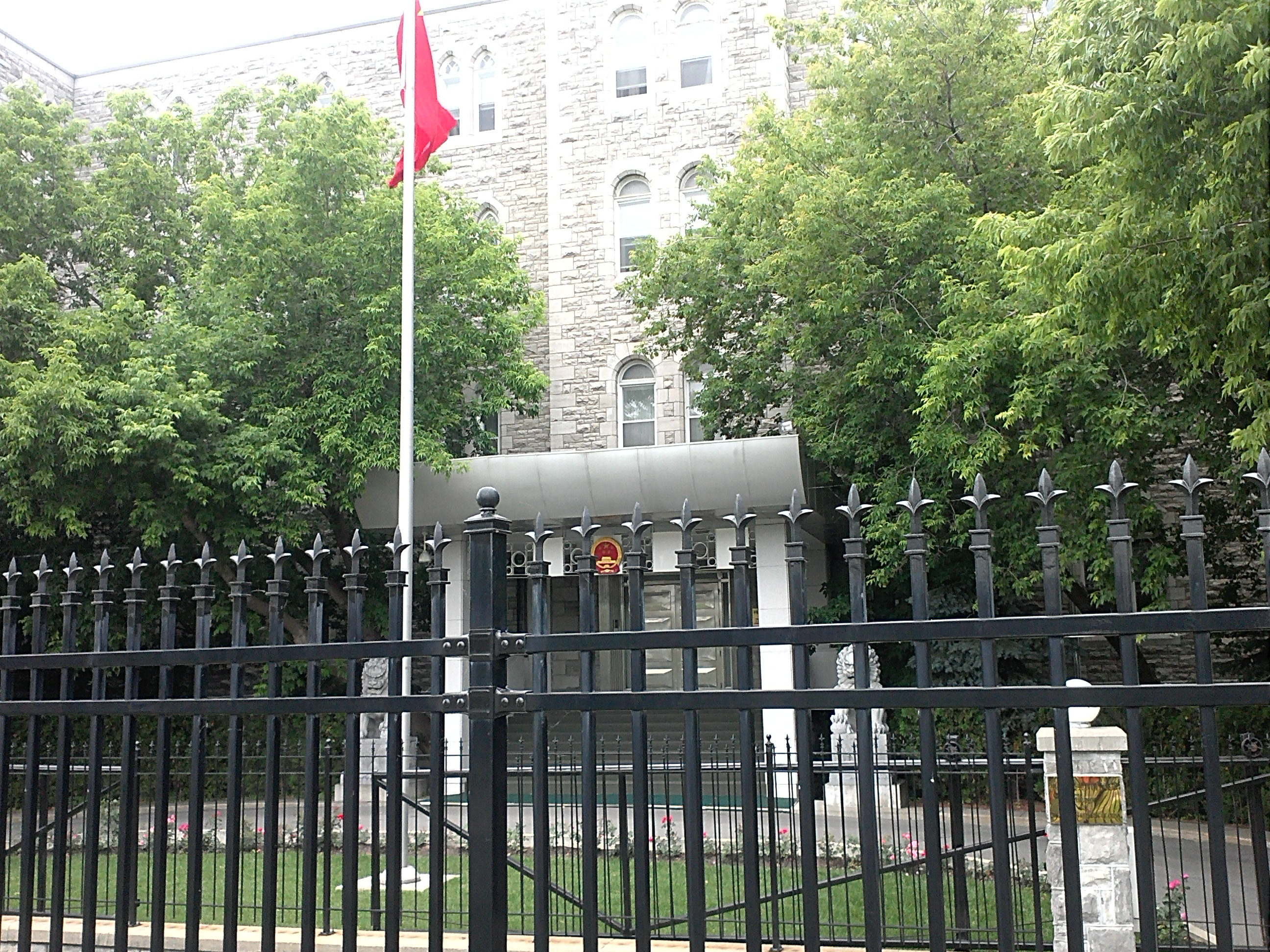 Embassy of the People's Republic of China Ottawa in June 2012.